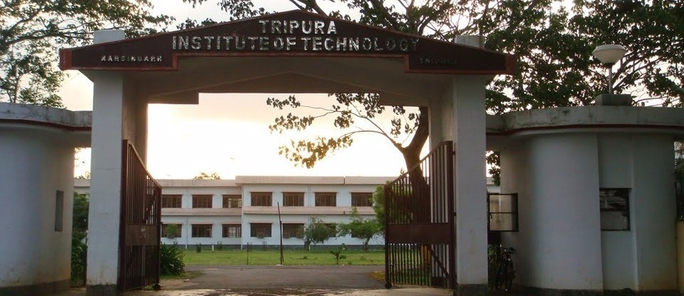 The Entrance Gate of Tripura Institute of Technology